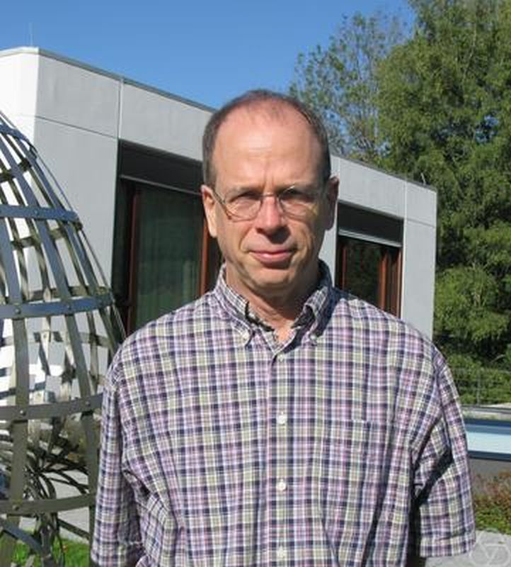 Paul Goerss, Oberwolfach 2011